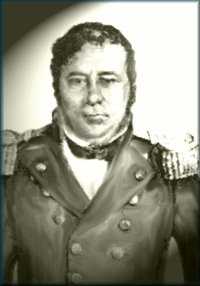 General Pedro Santana Original author unknown. (